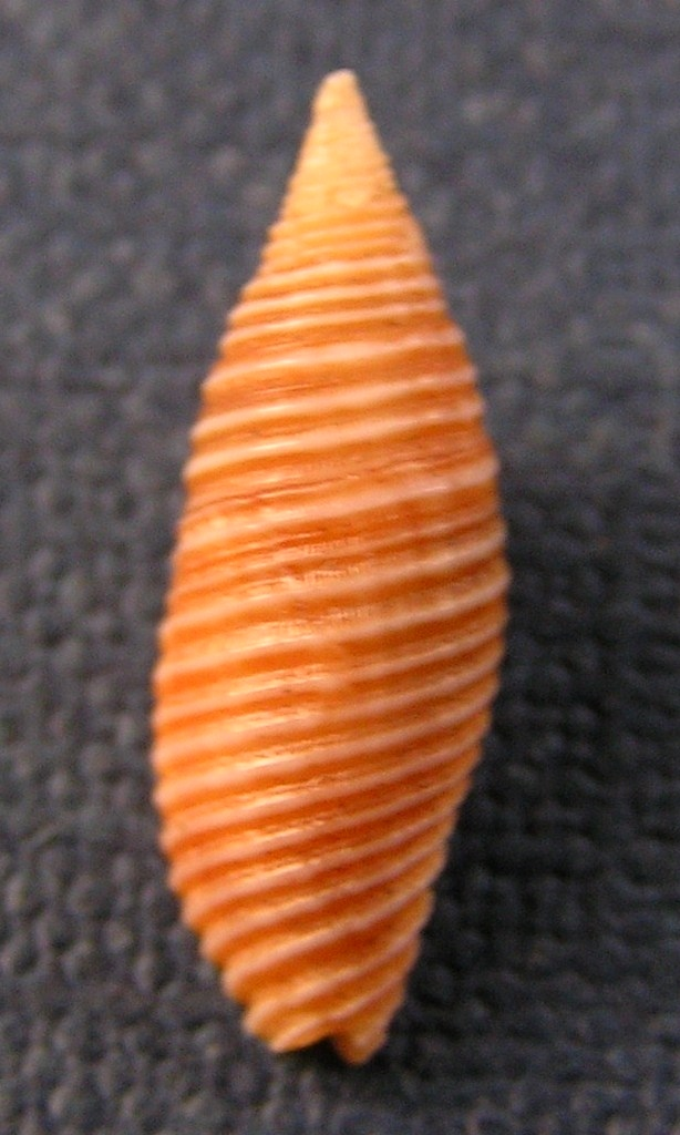 Mitra (Nebularia) avenacea Reeve, 1845, a miter snail from the family Mitridae; Philippines